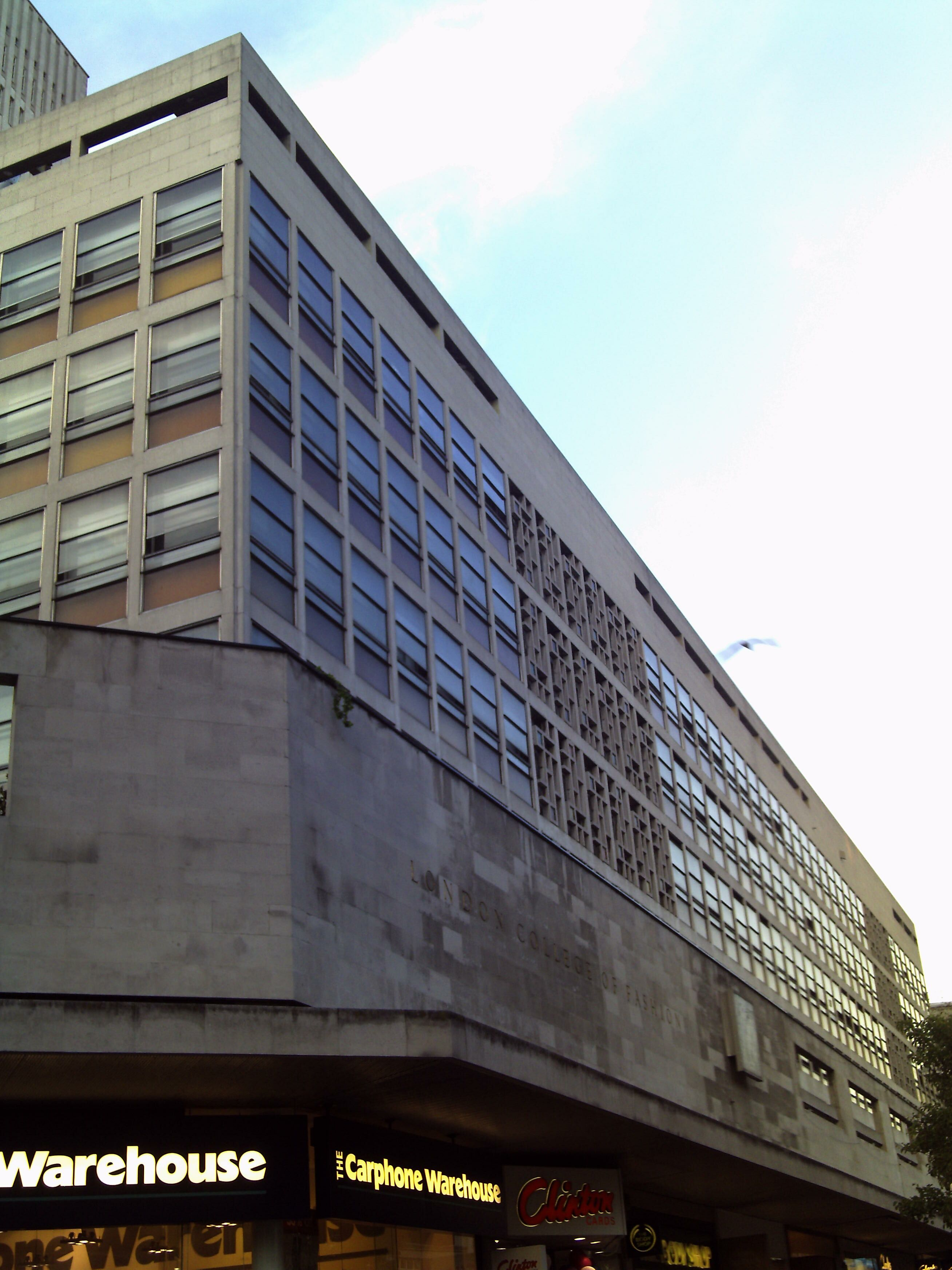 London College of Fashion, John Princes Street site, near Oxford Circus, pictured from Oxford Street.